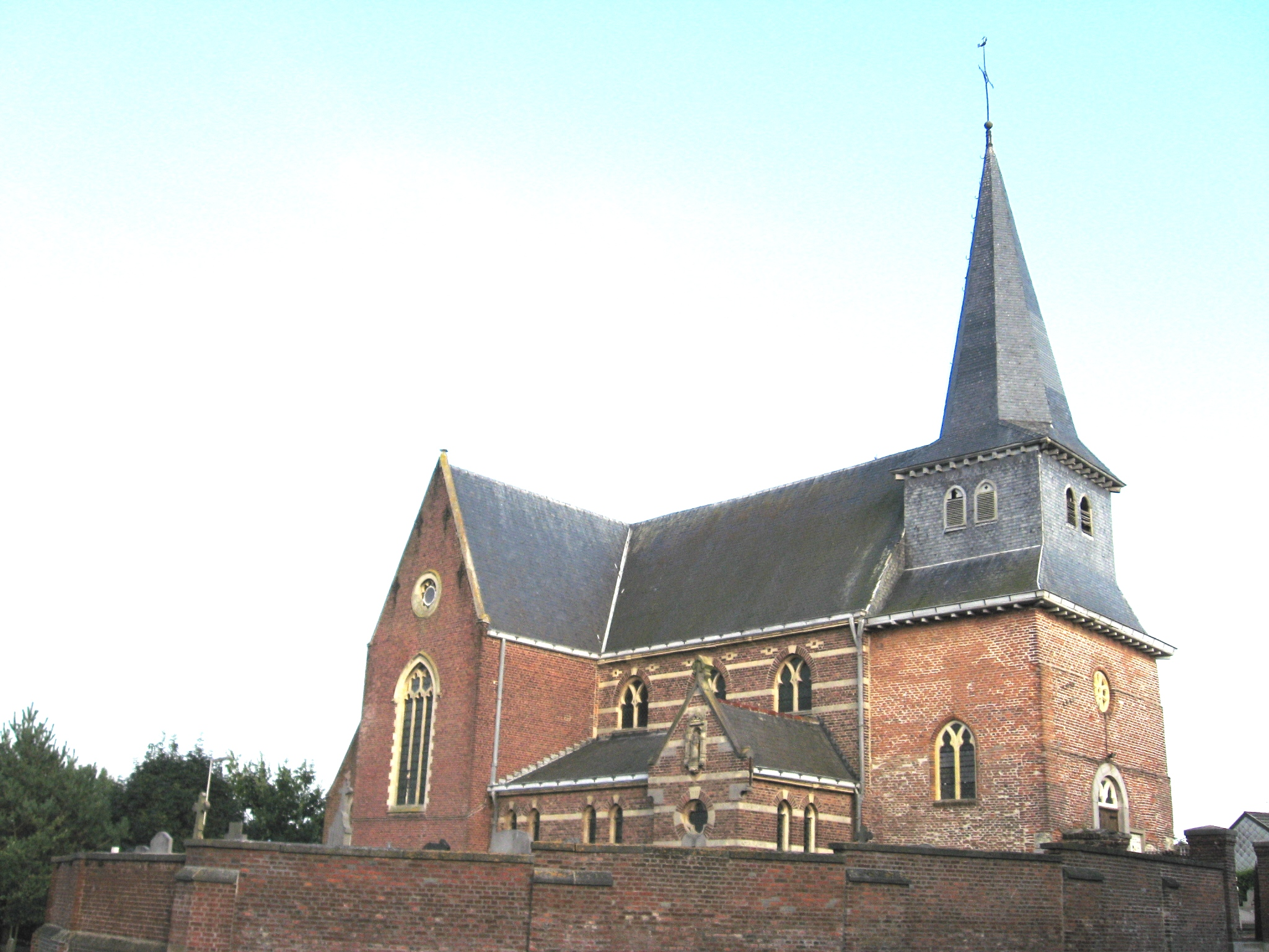 Church of Saint Trudo in Buvingen, Gingelom, Limburg, Belgium